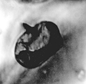 Photo and drawing of Oxymonites gerus n. gen., n. sp. R = rostellum, A = axostyle, N = nucleus. Bar = 26 μm